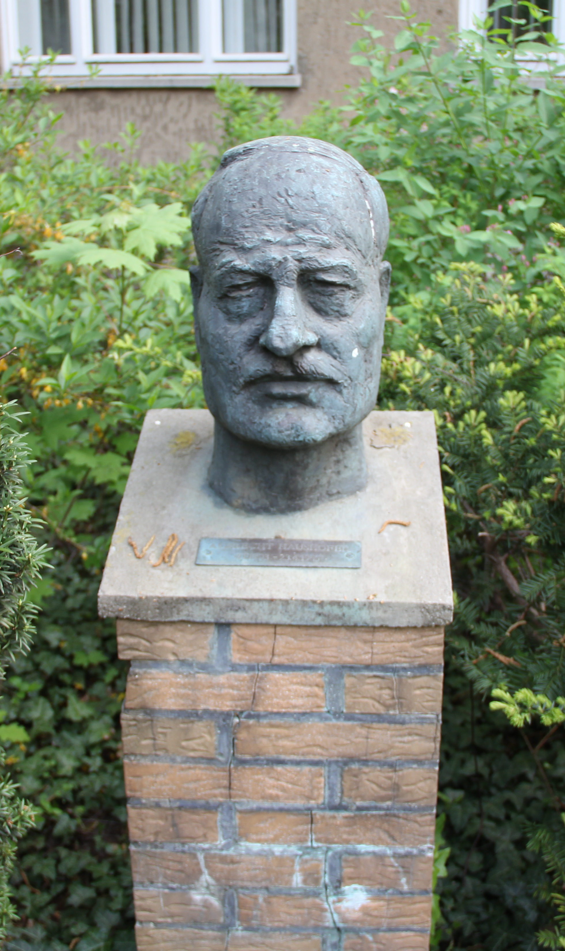 Memorial statue, Albrecht Haushofer, Kurzebracker Weg 40, Berlin-Heiligensee, Germany